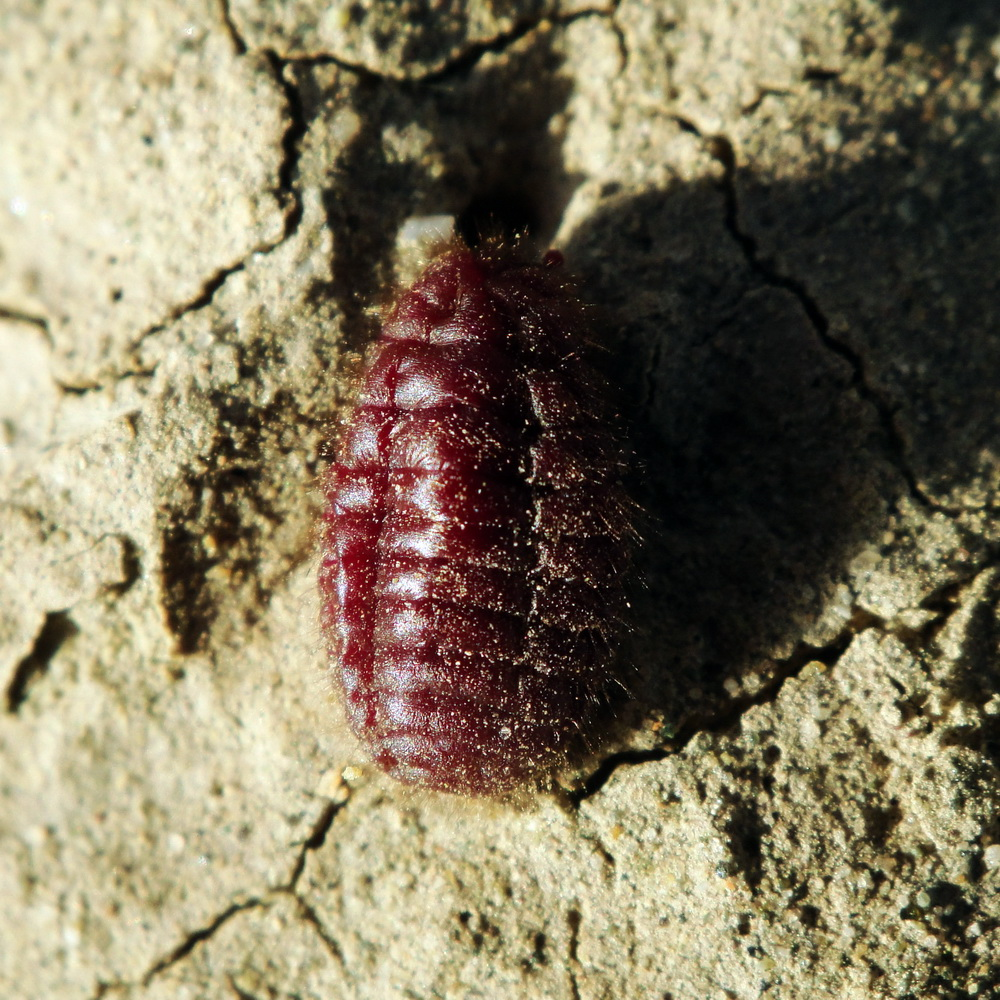 A female of Armenian cochineal (Porphyrophora hamelii). Photo taken in Arazaph (Armenia).